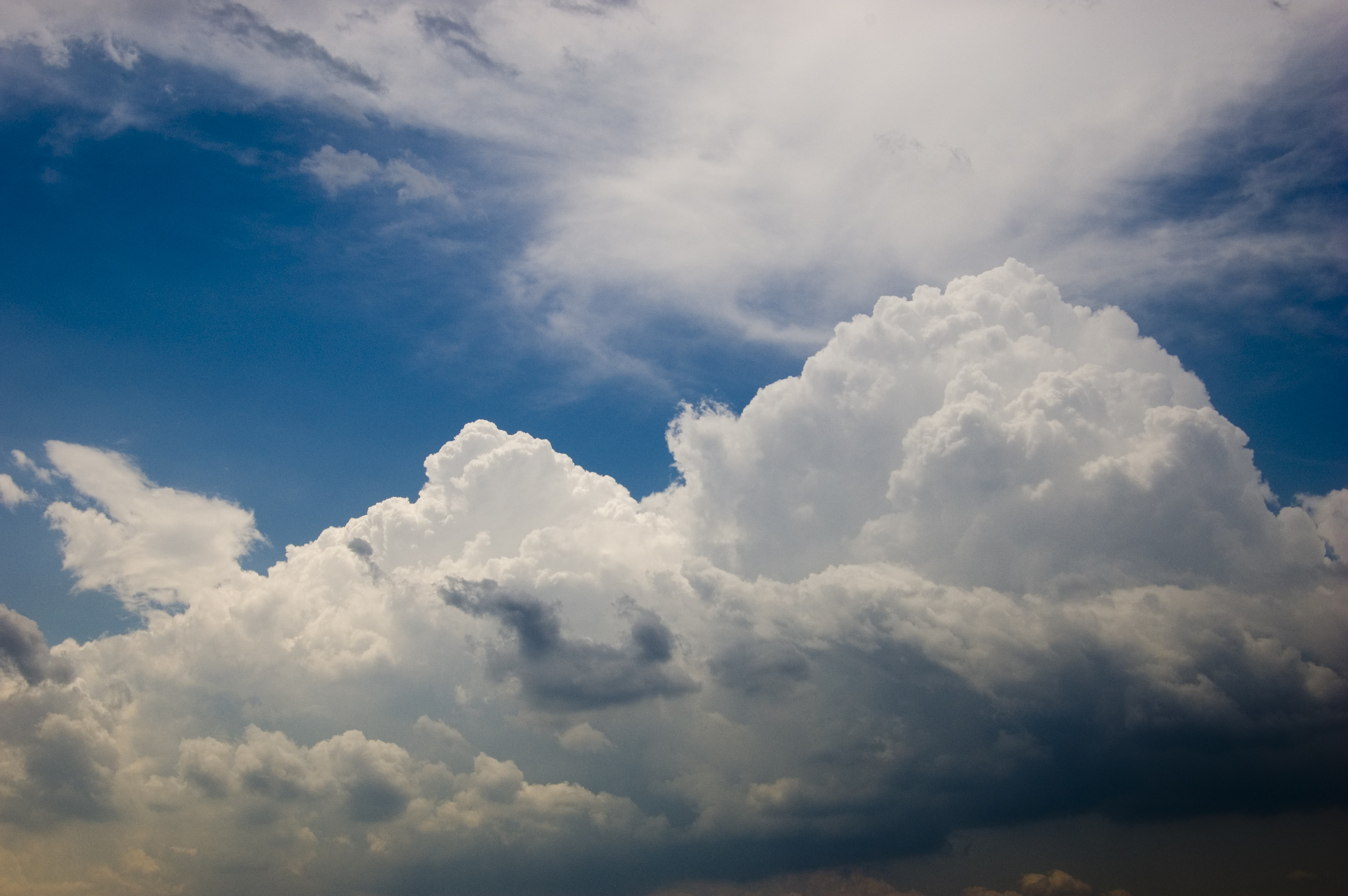 Cumulonimbus calvus with stratocumulus perlucidus clouds in the foreground.